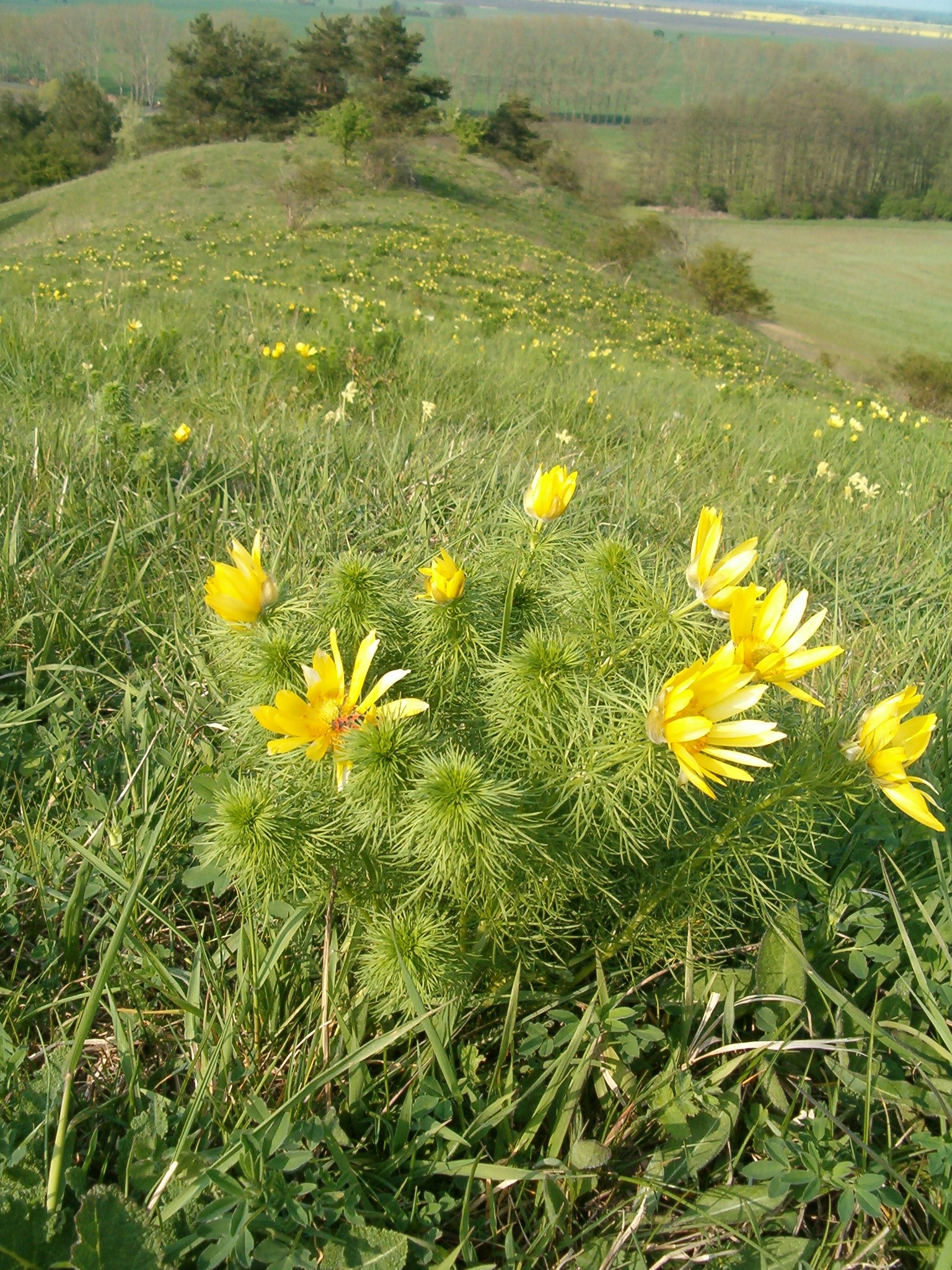 Species Adonis vernalis